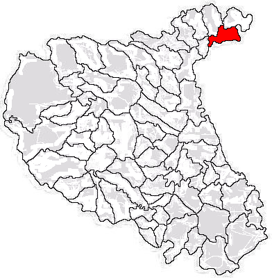 Limits of commune within Vrancea County